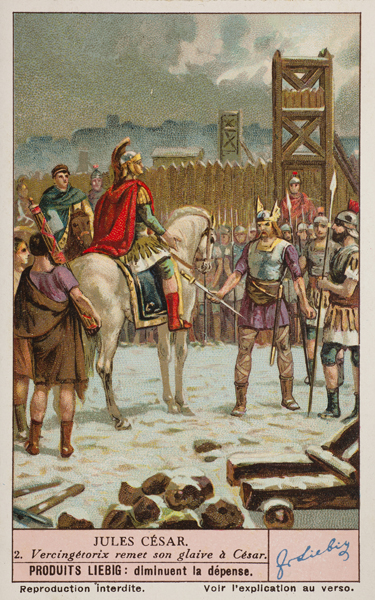 Liebig Chromos. Trade card.Series 1378, Julius Caesar, no 2, Vercigetorix giving his sword to caesar. 1938. Private collection Paul MR Maeyaert. 11 x 7,1cm. ; Ref: PM_110508_Liebig_Chromos; Cultural heritage; Cultural heritage|Techniques|Postcard trade card. Text on reverse: JULES CÉSAR; 2. - Vercingétorix remet son glaive à César.; Marié en 82, César dut s'écarter de Rome pour échapper aux menaces de Sylla, qui voyait en lui a « plusieurs Marius ». II alla en Asie où il fit ses premières armes et se perfectionna dans l'art oratoire, qui eut alors aussi bien mérité le nom d'art de s'illustrer et de parvenir. Rentré à Rome après la mort de Sylla, il intenta un retentissant procès à deux de ses partisans et se mit ainsi en bonne place pour la filière des magistratures. Tour à tour questeur en Espagne, édile à Rome, grand pontife (63), préteur (62), il fut en 62 renvoyé en Espagne en qualité de gouverneur (propréteur).; C'est en 60 qu'il accomplit l'acte dont devait dépendre le reste de sa vie: il s'unit a Pompée et a Crassus pour le partage de l'influence suprême sur les affaires: il obtint pour sa part le consulat en 59 et le gouvernement des Gaules à sa sortie de charge, Le traité renouvelé en 56 prolongea ses pouvoirs provinciaux jusqu'en 50. C'est au cours des 8 années entre 58 et 51 qu'il soumit la Gaule jusqu'au Rhin et à l'Océan. On connaît la résistance que lui opposèrent les Belges, mais en vain. Cette longue lutte fut pratiquement terminée par la reddition d'Alésia (en Bourgogne), où Vercingétorix, chef des Gaulois ligués, résista durant des mois a un siège mené selon les moyens les plus perfectionnés de l'époque.